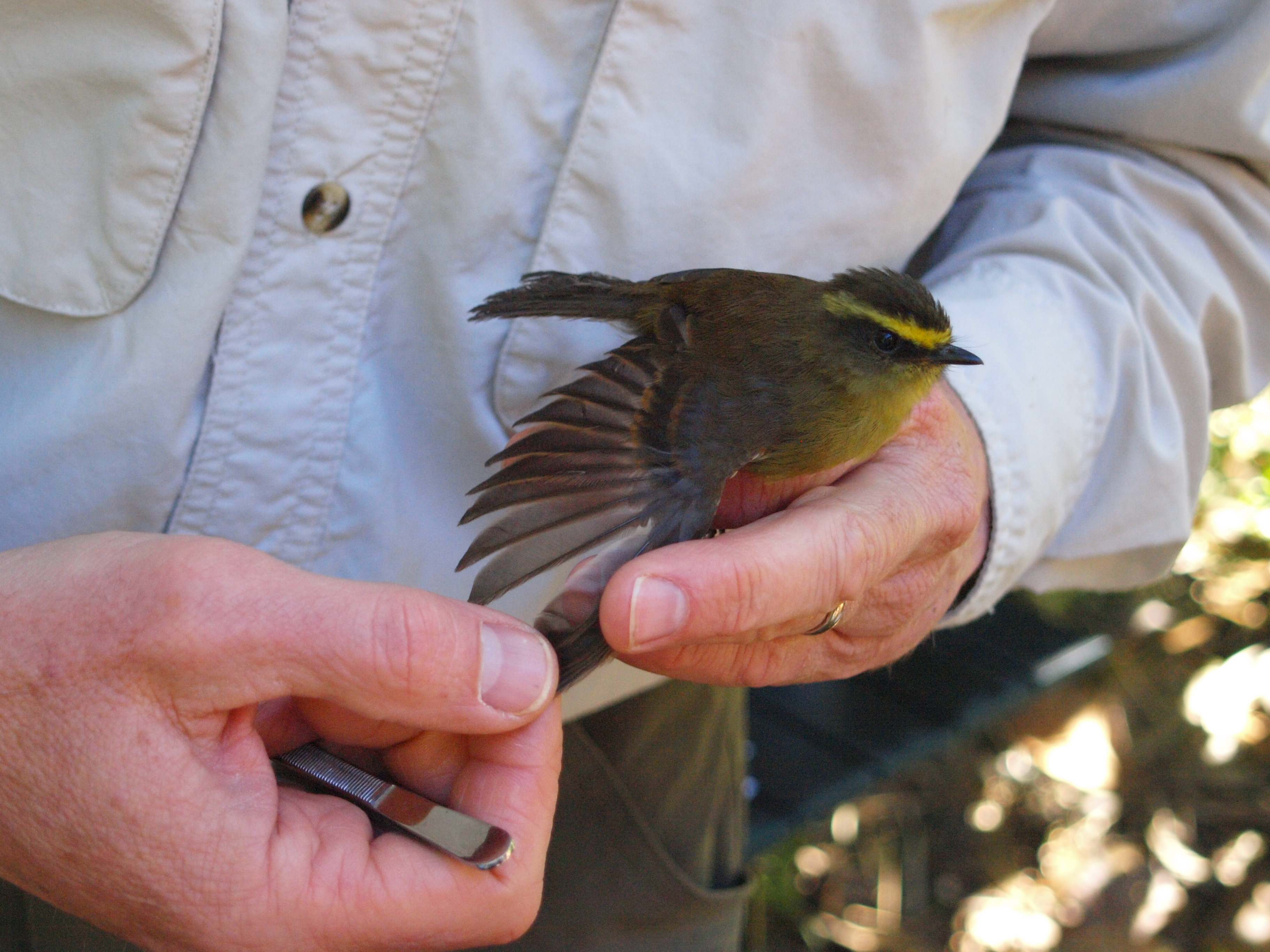 Wing of Yellow-bellied Chat-Tyrant